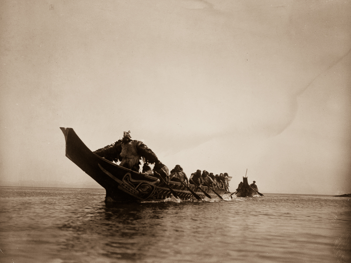 Kwakiutl people in Canoes